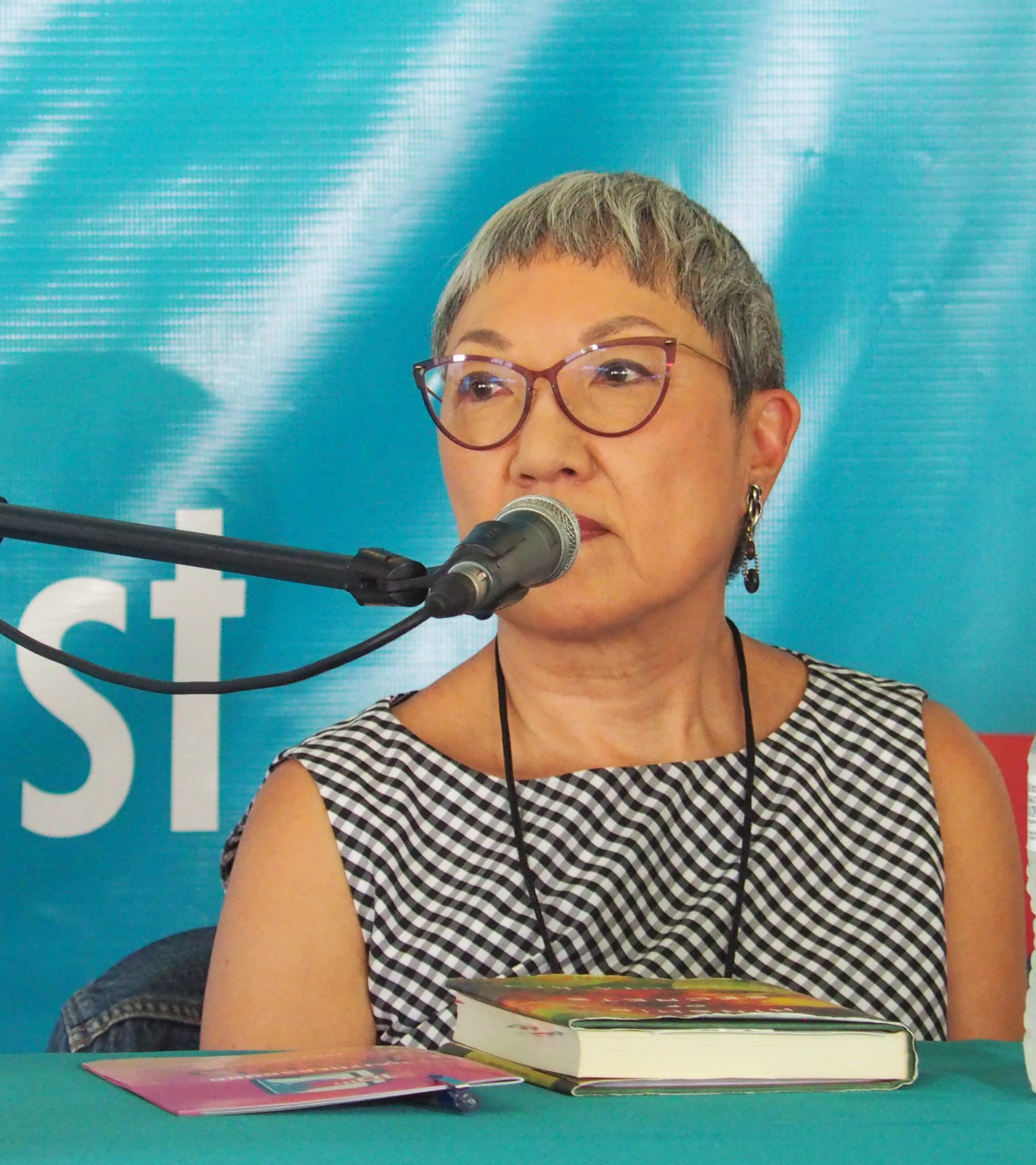 Eugenia Kim